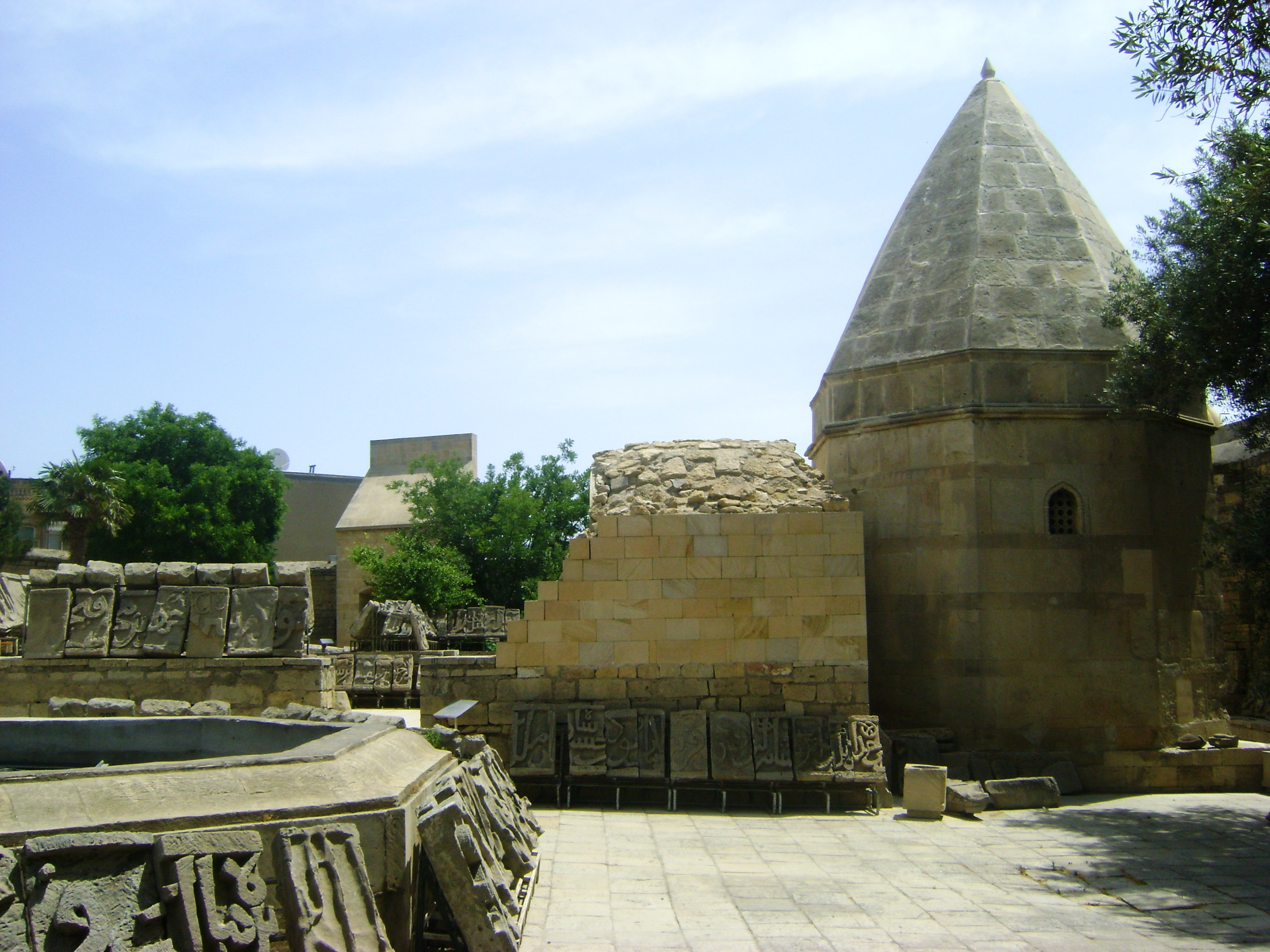 baku(azerbaijan)_old_city2_Key_Gubad_Mosque - Shirvanshah's Palace - 14century